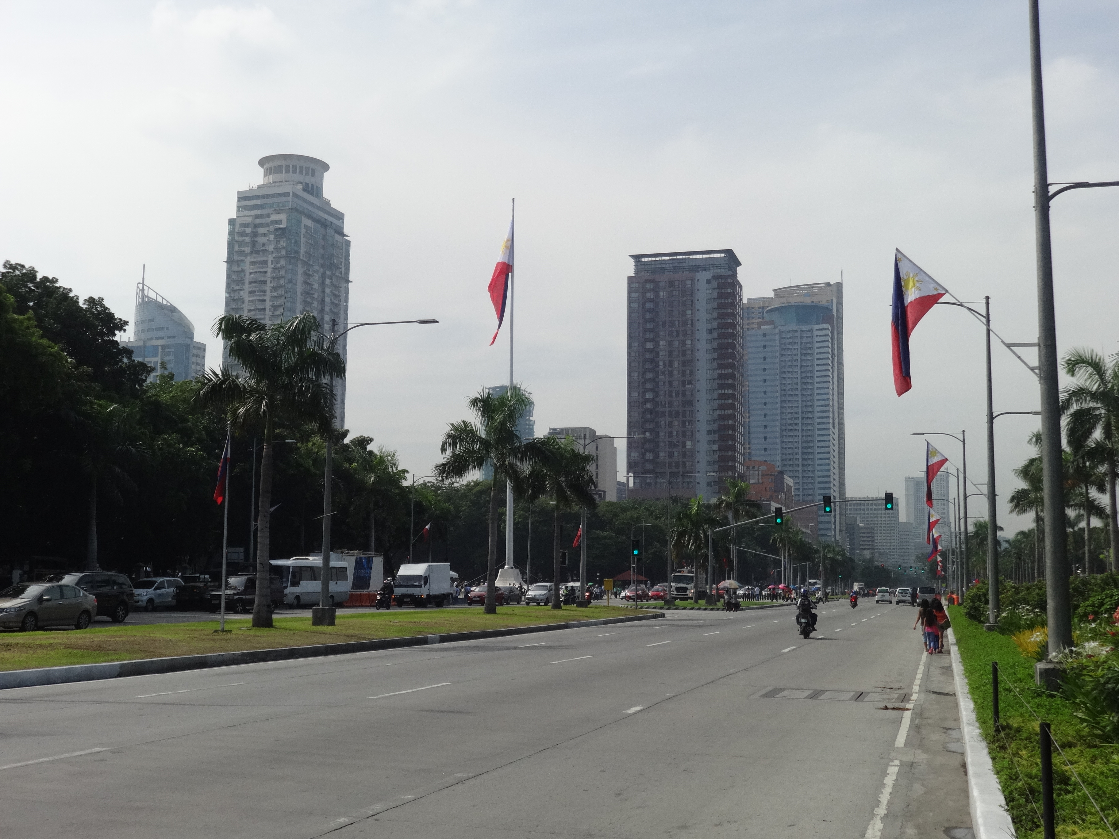 A portion of Roxas Boulevard in Rizal Park, Ermita, Manila. This area also marks the Kilometre Zero of the Philippine highway system.